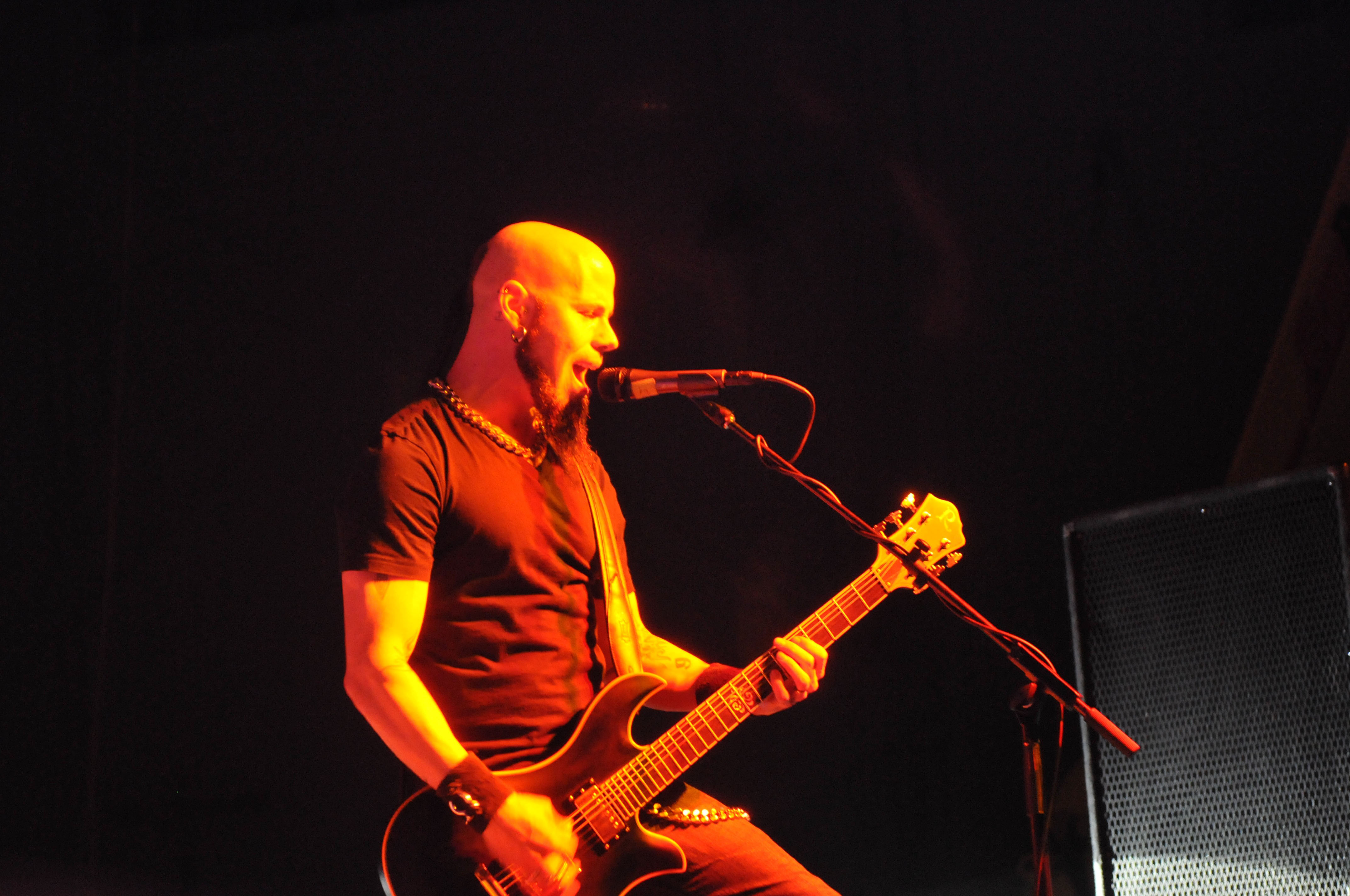 C. J. Pierce, guitarist for Drowning Pool, playing during their concert at Fort Wainwright, Alaska on November 6, 2010